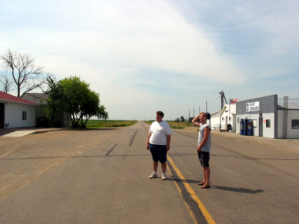 photo by Ryan Glanzer, image free to use in any way, shape, or form